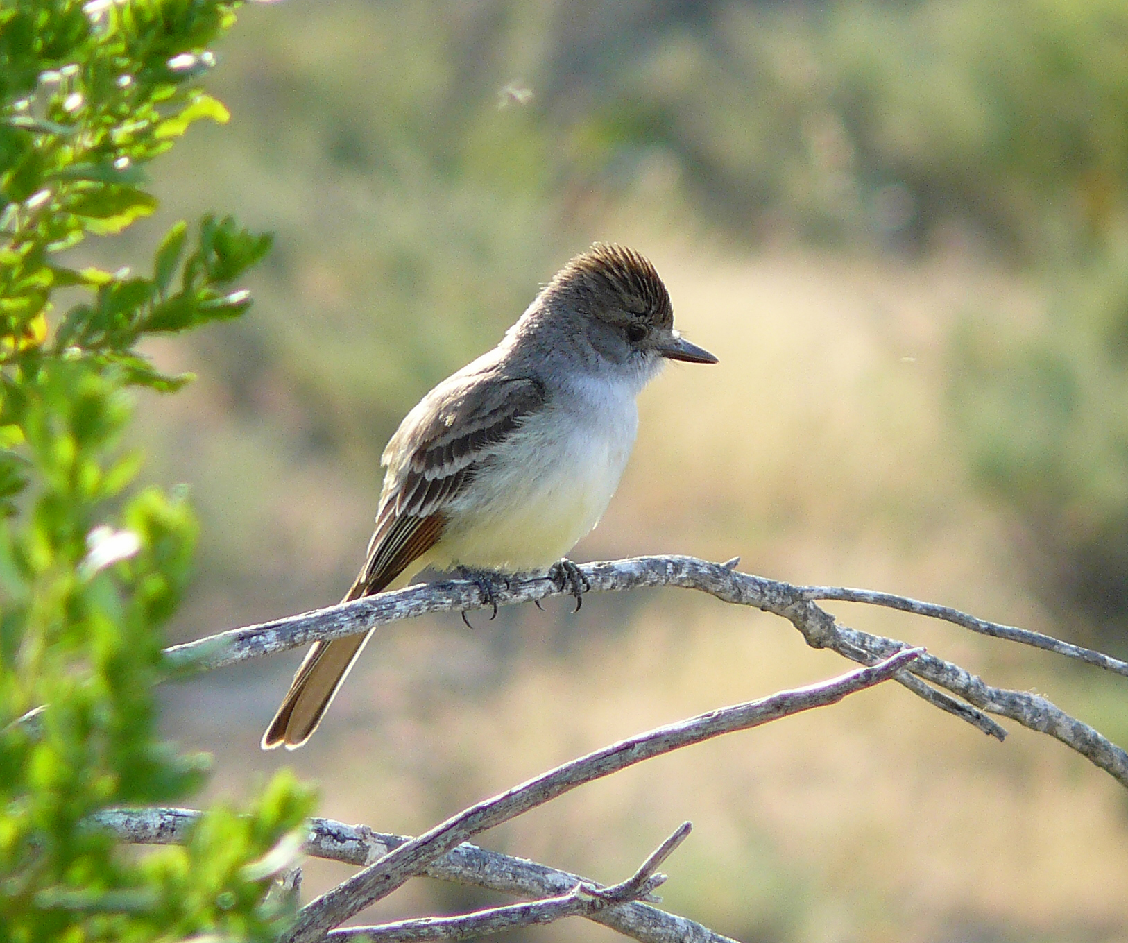 Ash-throated Flycatcher Myiarchus cinerascens. Cottonwood Creek, California